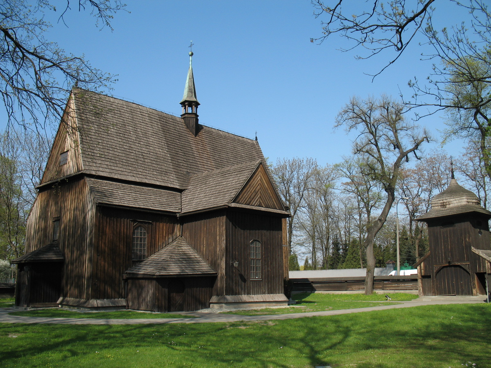 St. Bartholomew's Church, Kraków - Mogiła, rebuilt in 18th century